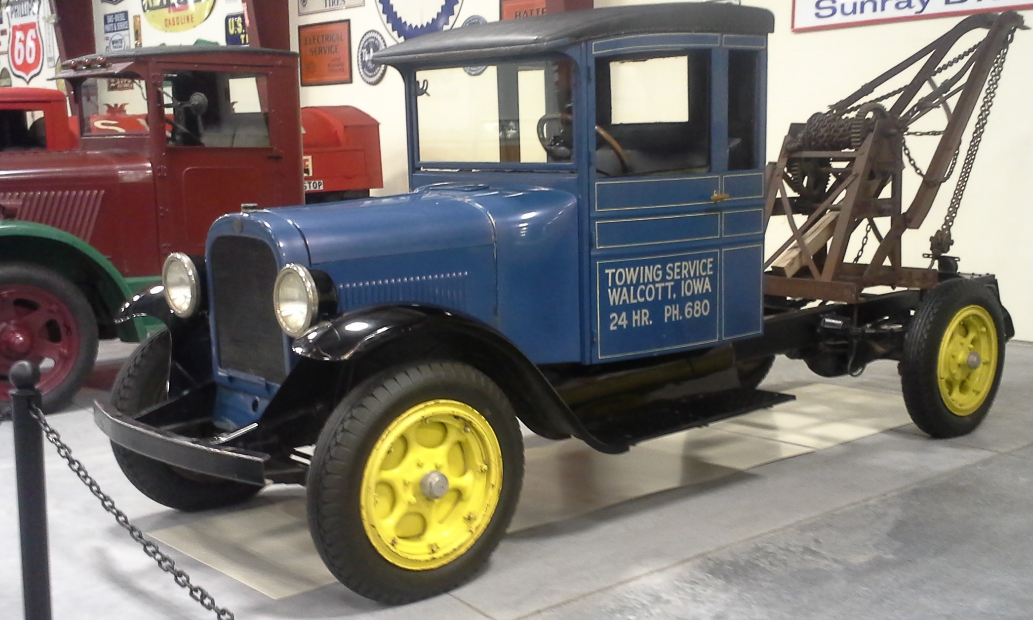 1927 Graham BB 1 Ton Dodge 4-cylinder engine Dodge transmission Top speed - 40 MPH On display at the Iowa 80 Trucking Museum, Walcott, Iowa